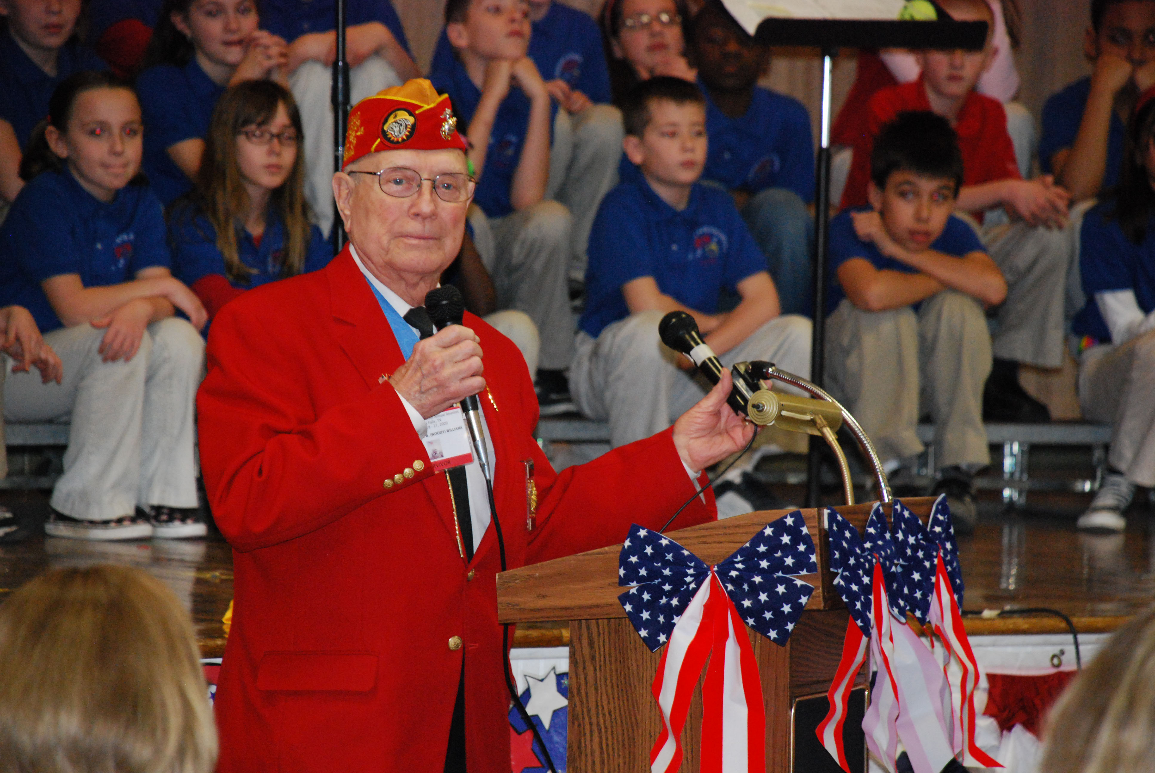 Sheppard Elementary hosts Iwo Jima Reunion Luncheon - Hershel "Woody" Williams, an Iwo Jima Medal of Honor recipient, speaks during the Iwo Jima Survivors Reunion Luncheon at Sheppard Elementary School on February 19. The students honored the veterans with a musical tribute after the luncheon.